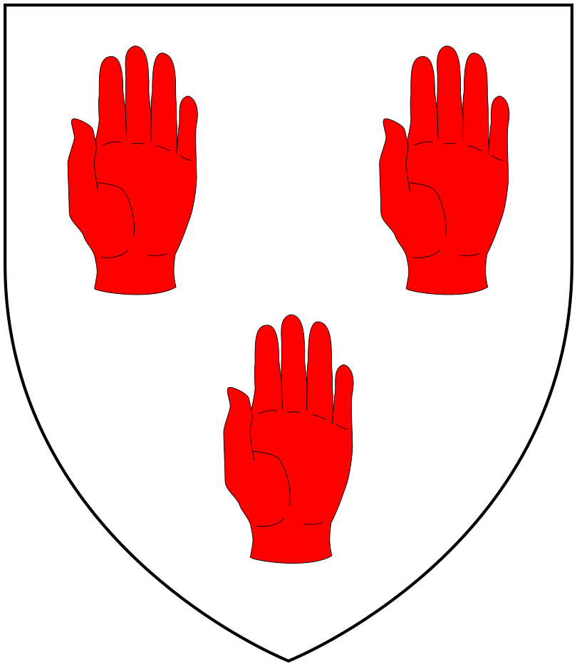 Canting arms of Maynard of Sherford in the parish of Brixton, Devon: Argent, three sinister hands couped at the wrist gules (Vivian, Lt.Col. J.L., (Ed.) The Visitations of the County of Devon: Comprising the Heralds' Visitations of 1531, 1564 & 1620, Exeter, 1895, p.561); Sherford located in parish of Brixton per Risdon, Tristram, Survey of Devon, 1811 edition, London, 1811, with 1810 Additions, p.392.